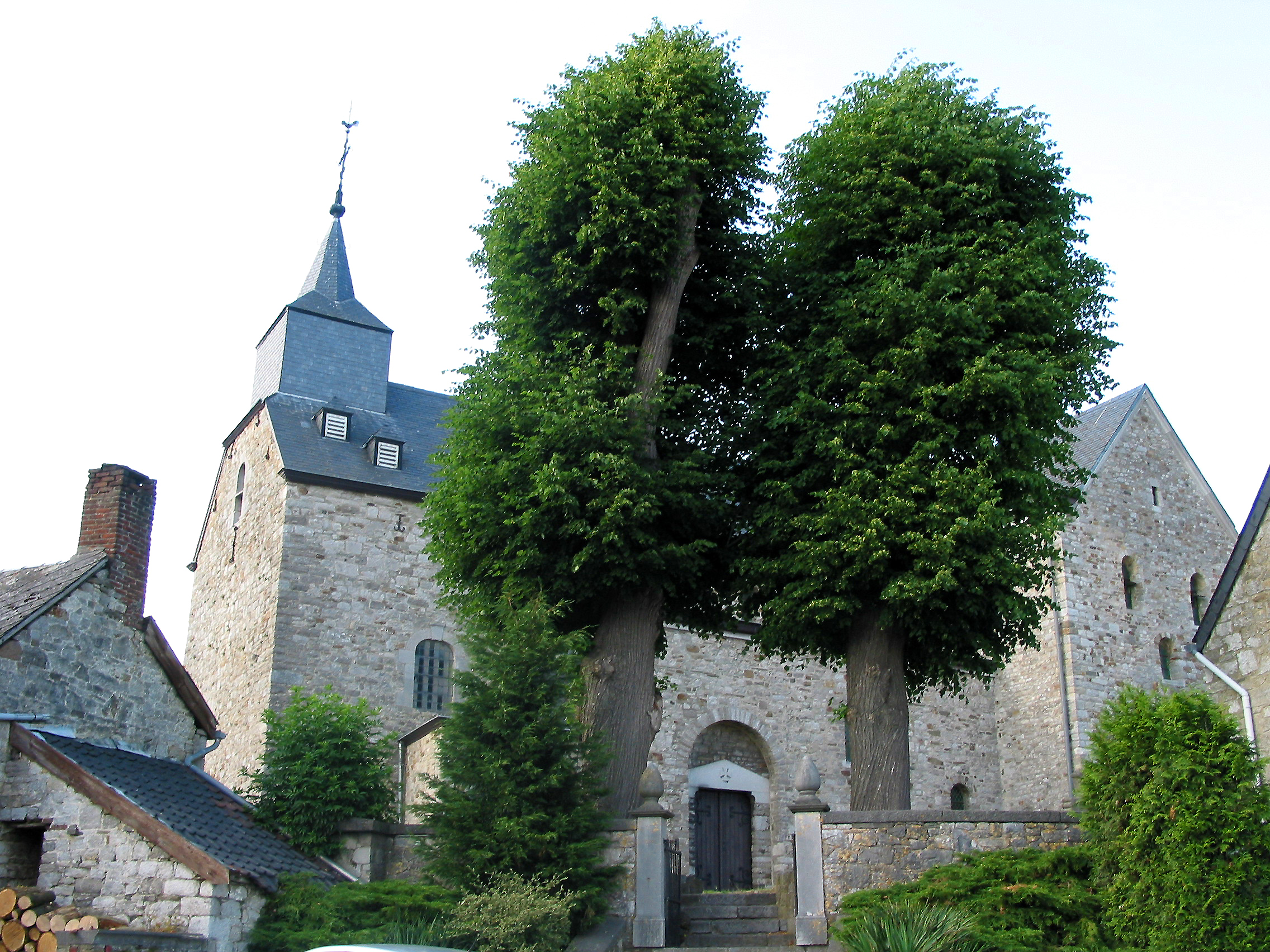 Xhignesse, southern side and right transep of the Saint Peter's church (end of the XIth century).